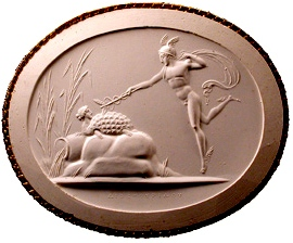 Hermes transforms the tortoise on a gem from the early 19th century Poniatowski collection